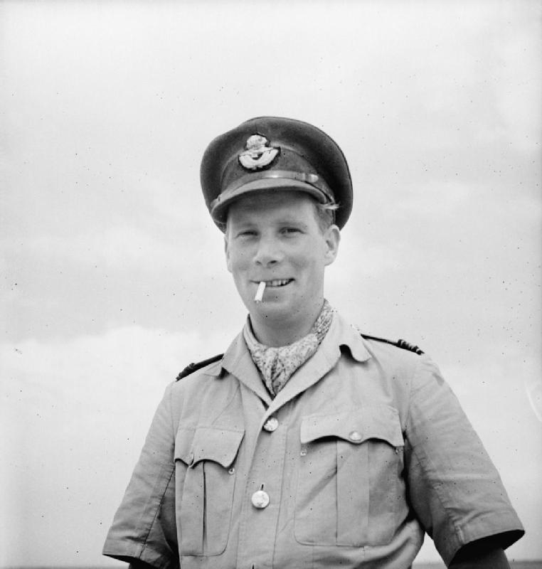 Royal Air Force Operations in the Middle East and North Africa, 1939-1943 Squadron Leader Billy Drake photographed while Officer Commanding No. 112 Squadron RAF at Gambut, Libya. After commanding No. 128 Squadron RAF in West Africa, Drake took command of 112 Squadron, and enjoyed a period of considerable success in North Africa, shooting down 14 enemy aircraft before he was taken off operations in December 1943 to serve on the staff at RAF Headquarters Middle East. From June until November 1943 he led the Krendi fighter Wing in Malta, with whom he scored the last of his 20 confirmed victories. This was followed by six months as Wing Leader of No. 20 Wing in the United Kingdom, flying Hawker Typhoons, and a spell as Chief Flying Instructor at the Fighter Leaders School at Milfield, before he attended the United States Staff School at Fort Leavenworth. He then served on the Operations Staff of SHAEF for the rest of the war, after which he continued his RAF service, retiring as the Station Commander of RAF Chivenor, Devon, in July 1963. His final victory score was at least 20, and possibly more.